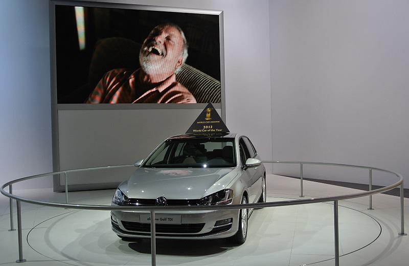 NYIAS 2013 | World Car Awards @ New York Autoshow _____________ Please feel free to use this image for FREE under the Creative Commons (CC) licence. However, if you use the image, pls set a backlink to and give credit to . For highres images or any other inquiries pls .